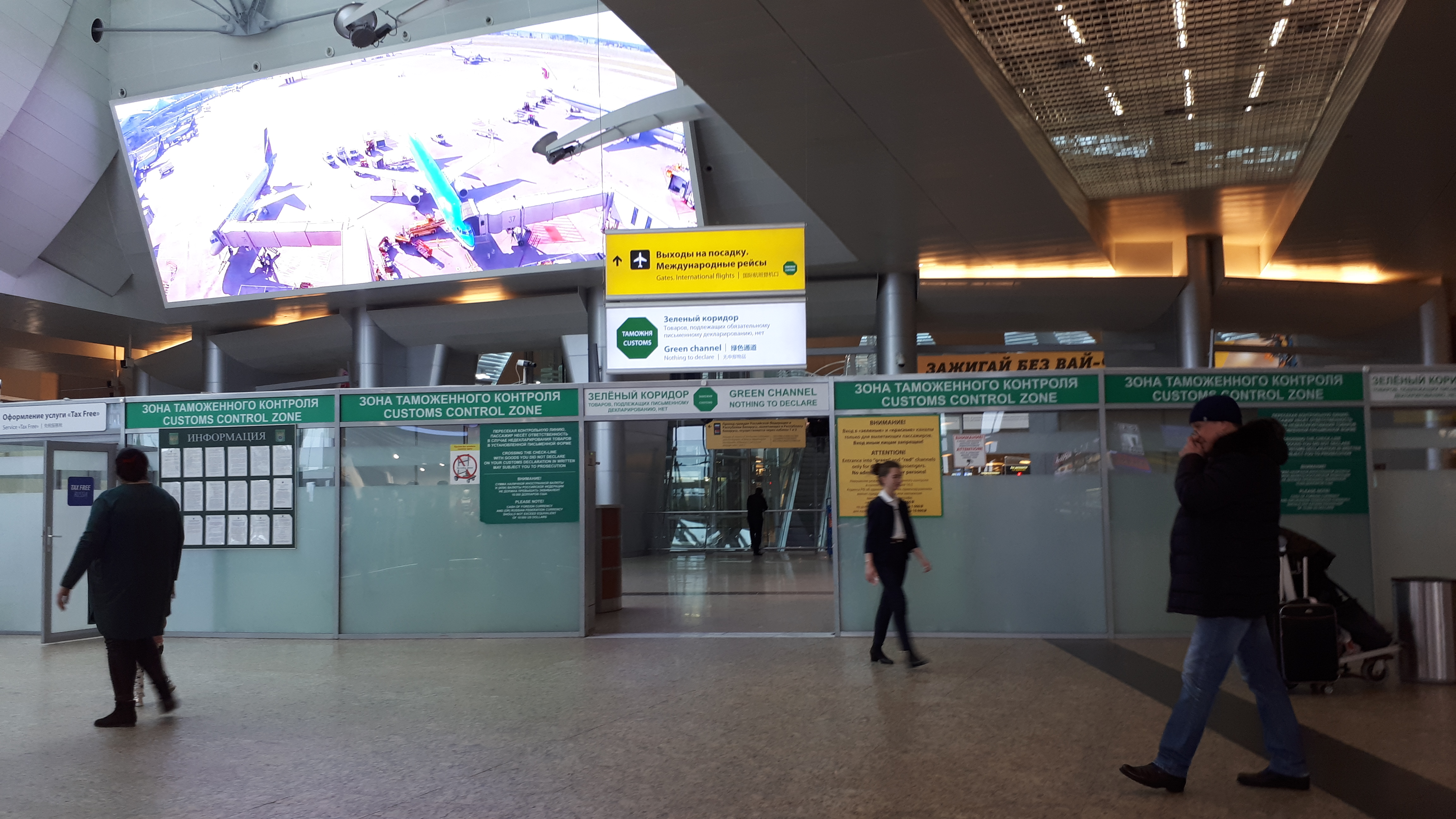 Sheremetyevo Airport terminal D February 2019